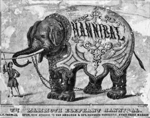 ca 1840, drawing of Old Hannibal, 19th century circus elephant in United States. Original copy is contained in Collection of the John and Mable Ringling Museum of Art Tibbals Digital Collection